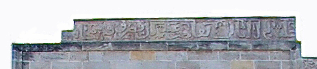 A portion of the Arabic inscription decorating the top of the "Cuba" castle in Palermo. The building was built in XII century for the Norman Kings of Sicily.